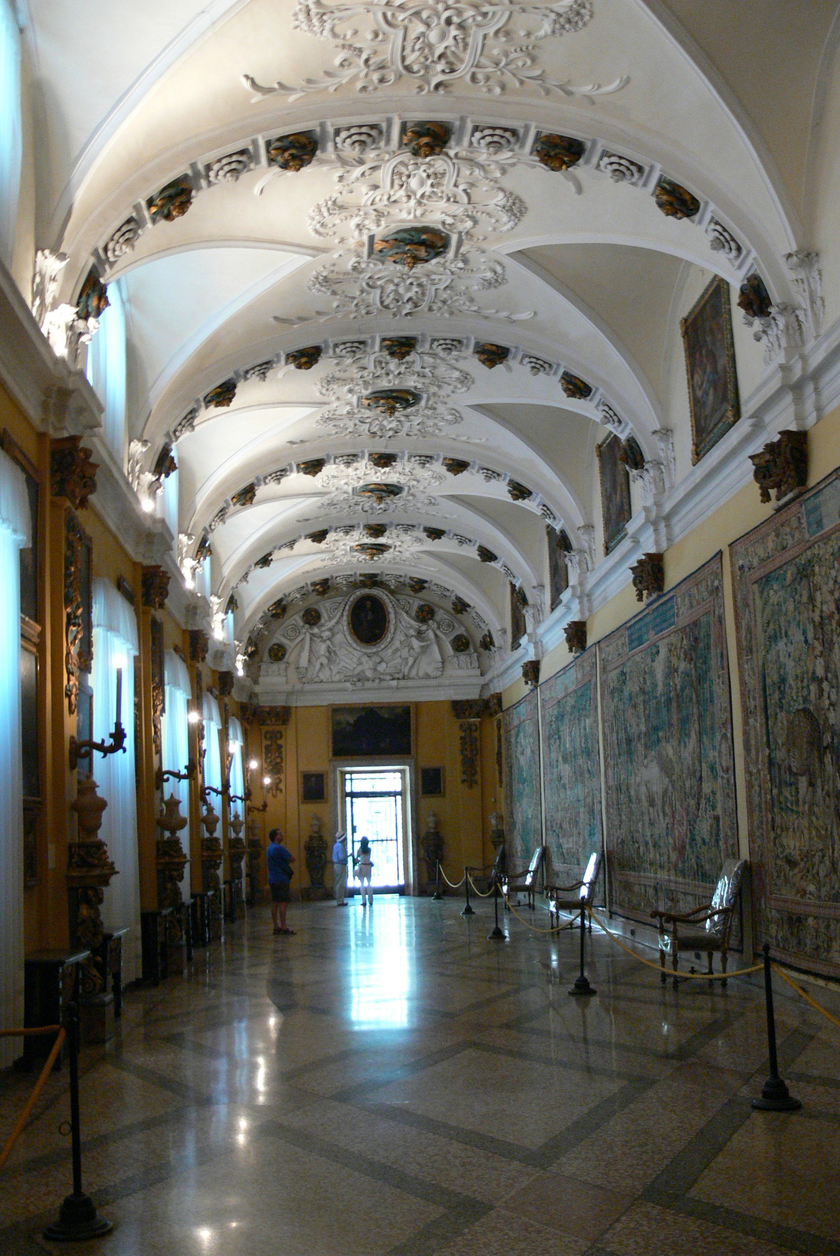 Isola Bella ( Lago Maggiore ). Borromean palace: Gallery of tapestries.